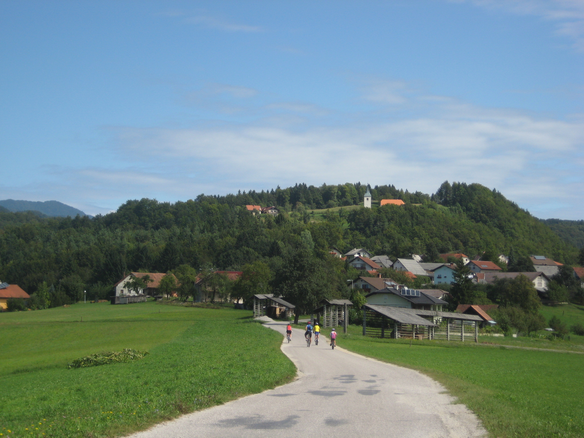 Gradišče pri Lukovici, village in Slovenia